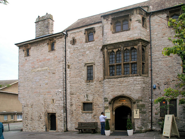 Prysten House, Finewell Street, Plymouth Reputedly the oldest surviving domestic building in Plymouth, built in 1498. Currently in use as a restaurant.